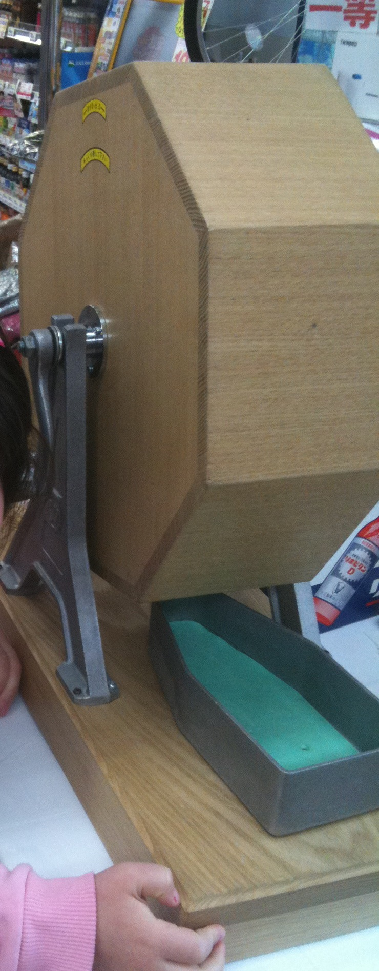 These are small "lotteries" you often see in Japan by turning the large wheel and seeing which colored ball comes out. My little one managed to win 1st place twice! 抽選器